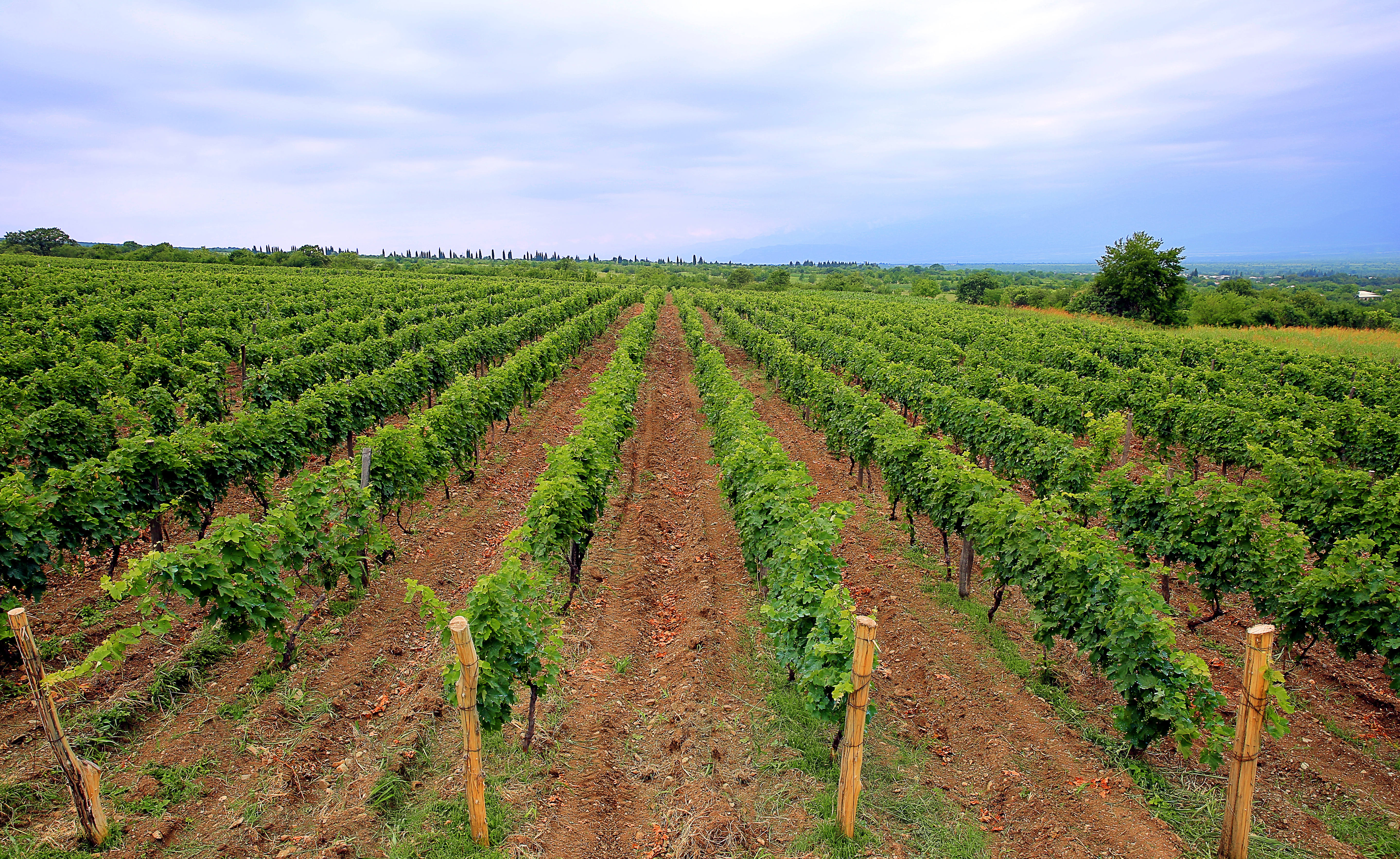 Chateau Zegaani Vineyards in Akhasheni, Gurjaani,Kakheti